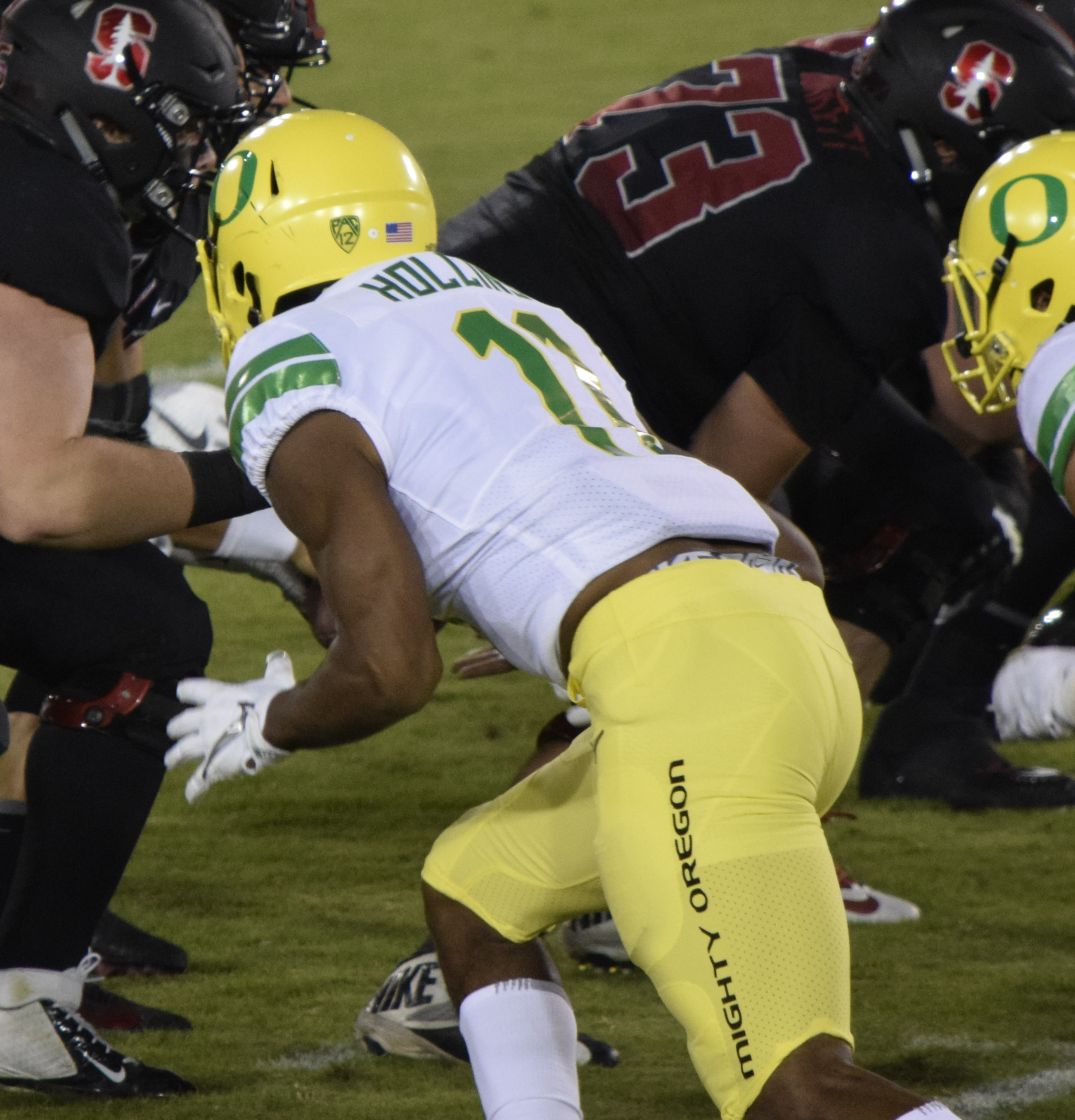 Oregon's Justin Hollins playing against Stanford in 2017